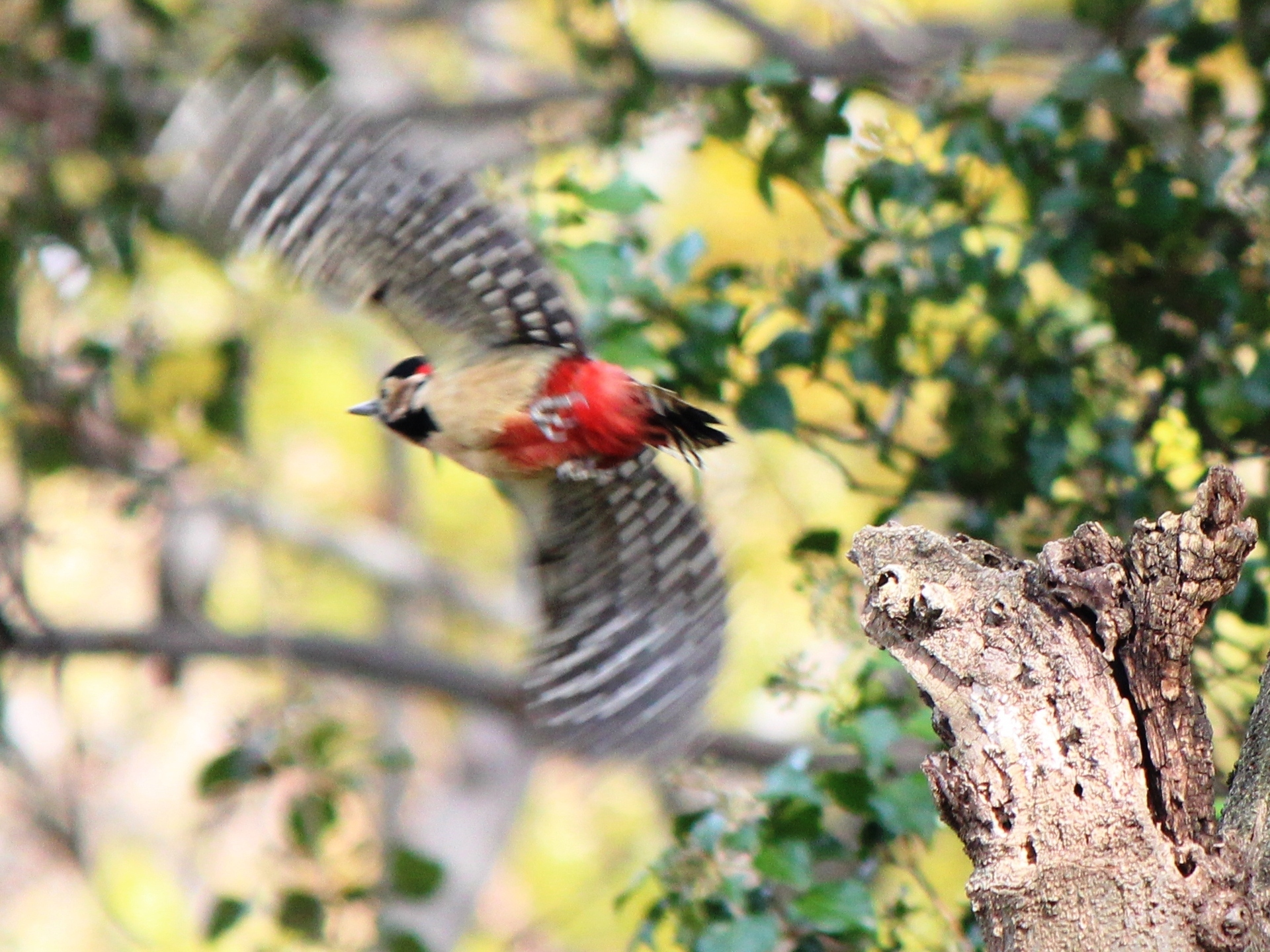 Dendrocopos major hondoensis (Great Spotted Woodpecker), male in flight in Japan.